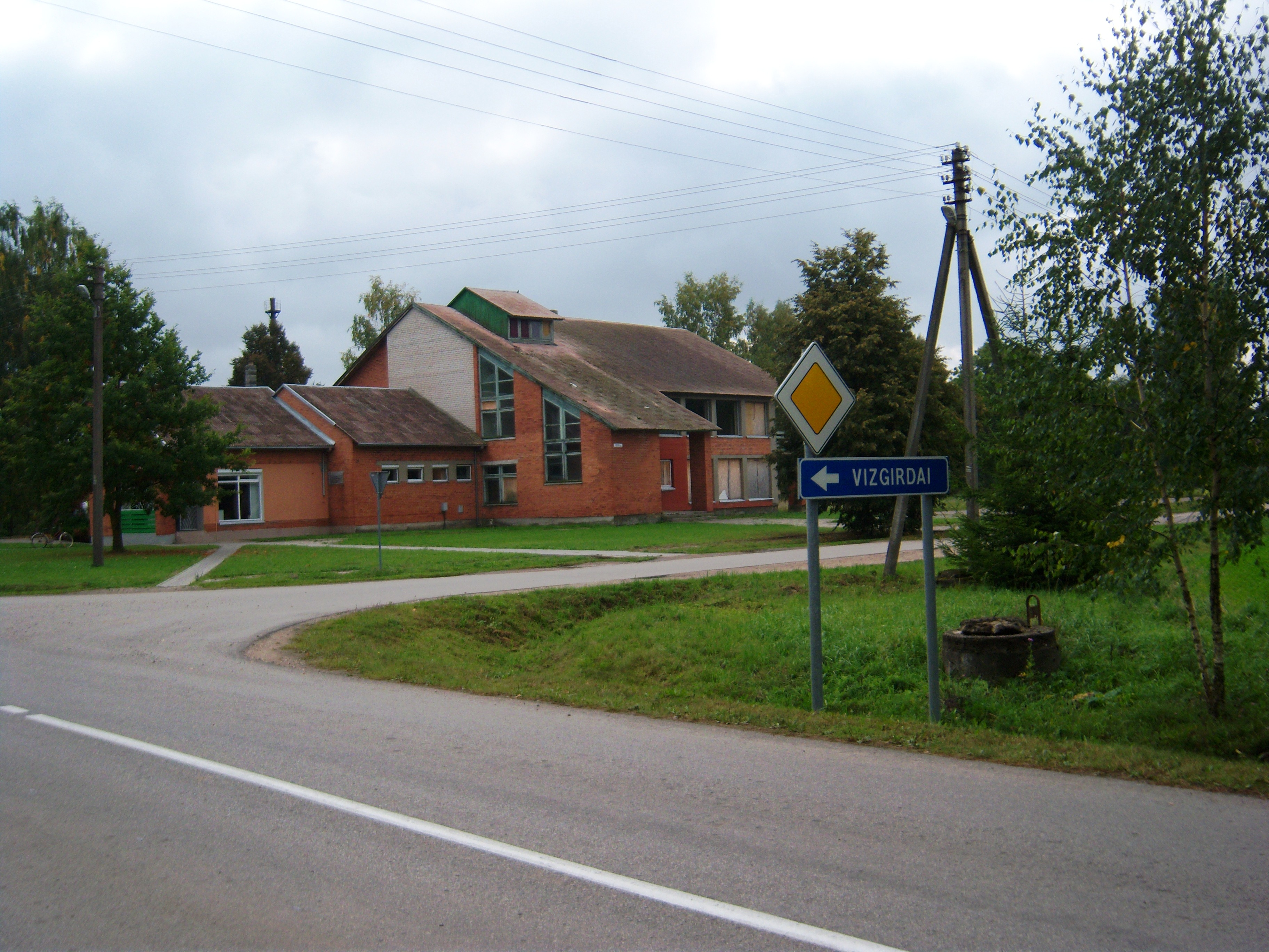 Paežeriai (Pilviškiai Eldership), Vilkaviškis District, Lithuania